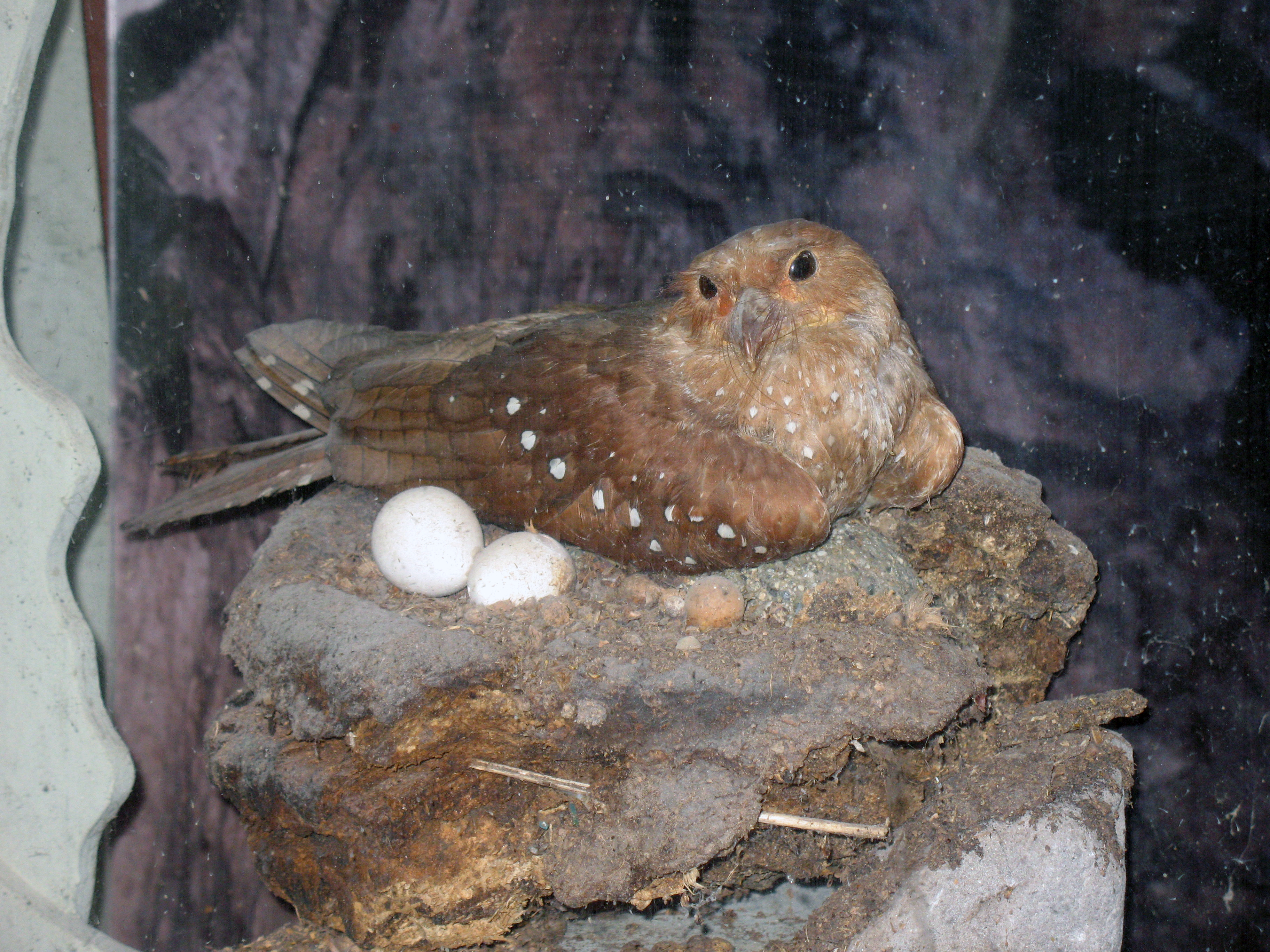 Oilbird (Steatornis caripensis), also known as Guácharo, in Caripe, Venezuela